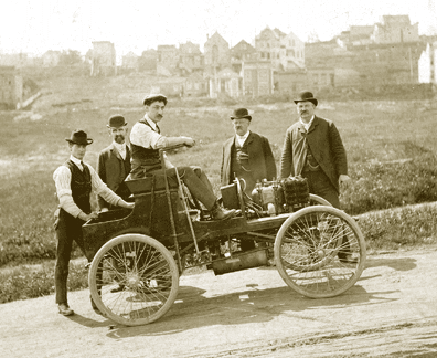 1905 Scharbach Roadster made by the Hill Climber Bicycle Co. in San Francisco, 1904-1906. Peter J. Scharbach is at the far right.